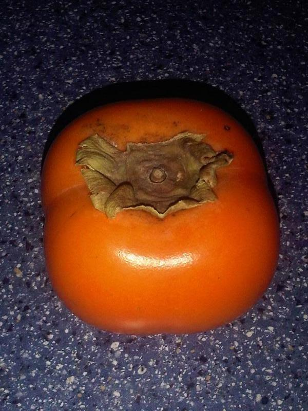 Japanese Persimmon or Kaki Persimmon (Diospyros kaki) fruit.